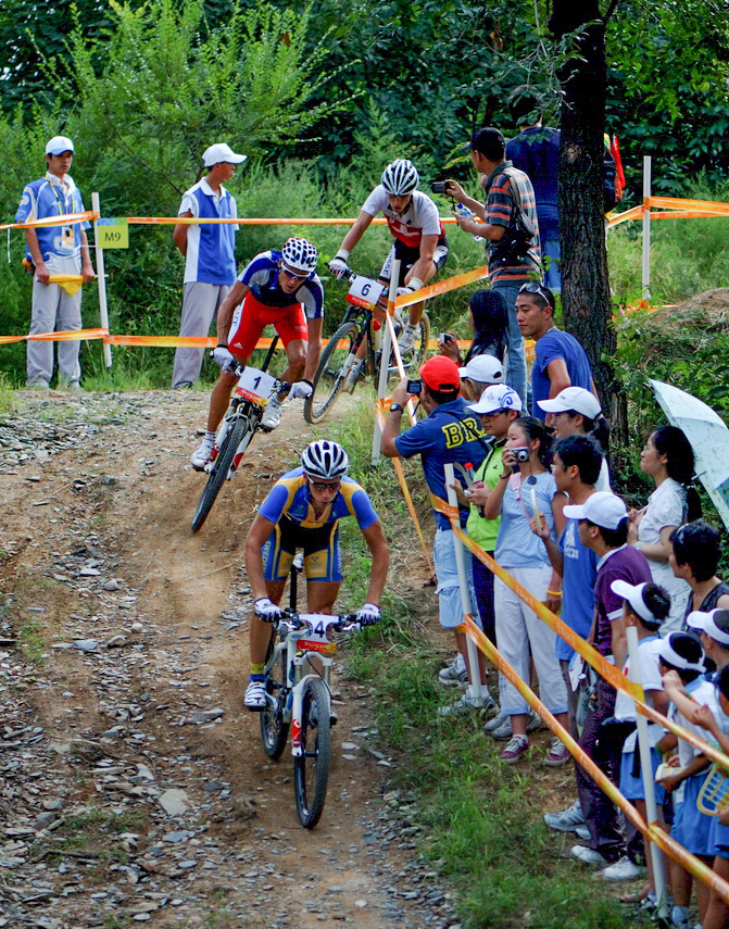 Laoshan Mountain Bike Course at the 2008 Summer Olympics : Fredrik Kessiakoff (4), Julien Absalon (1) and Nino Schurter (6).